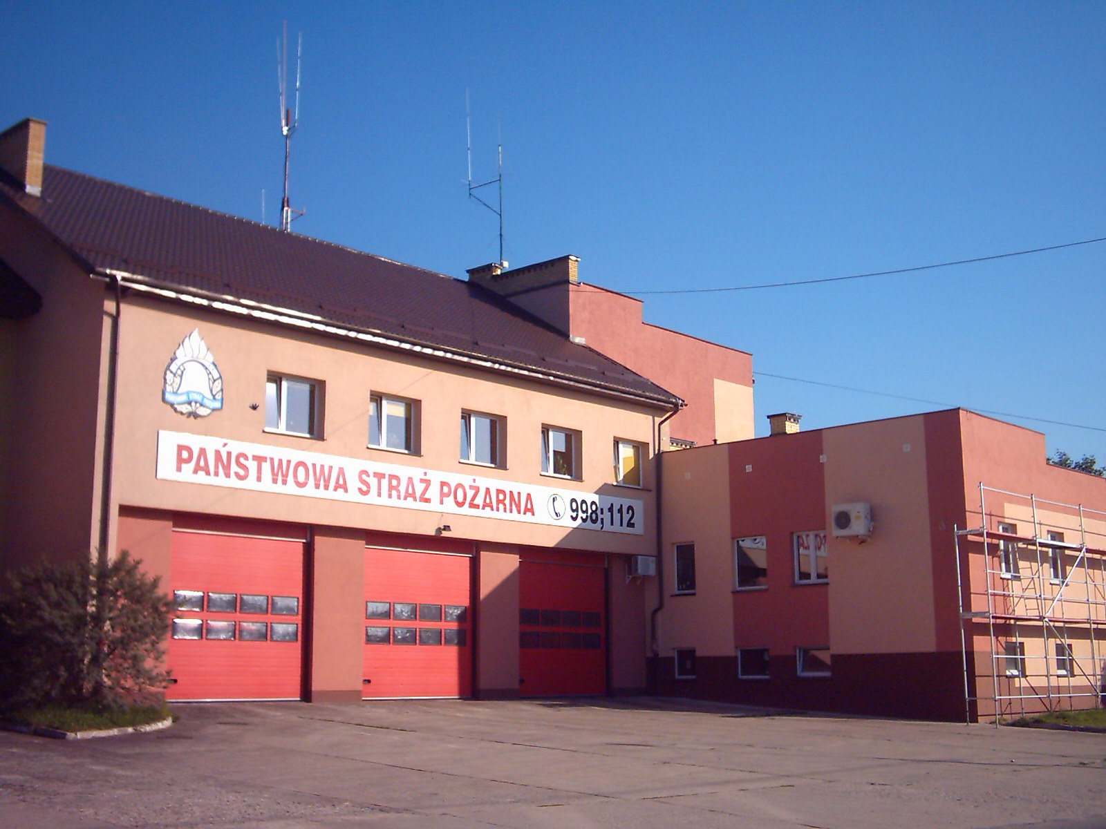 Fire stations in Hajnówka(Poland)